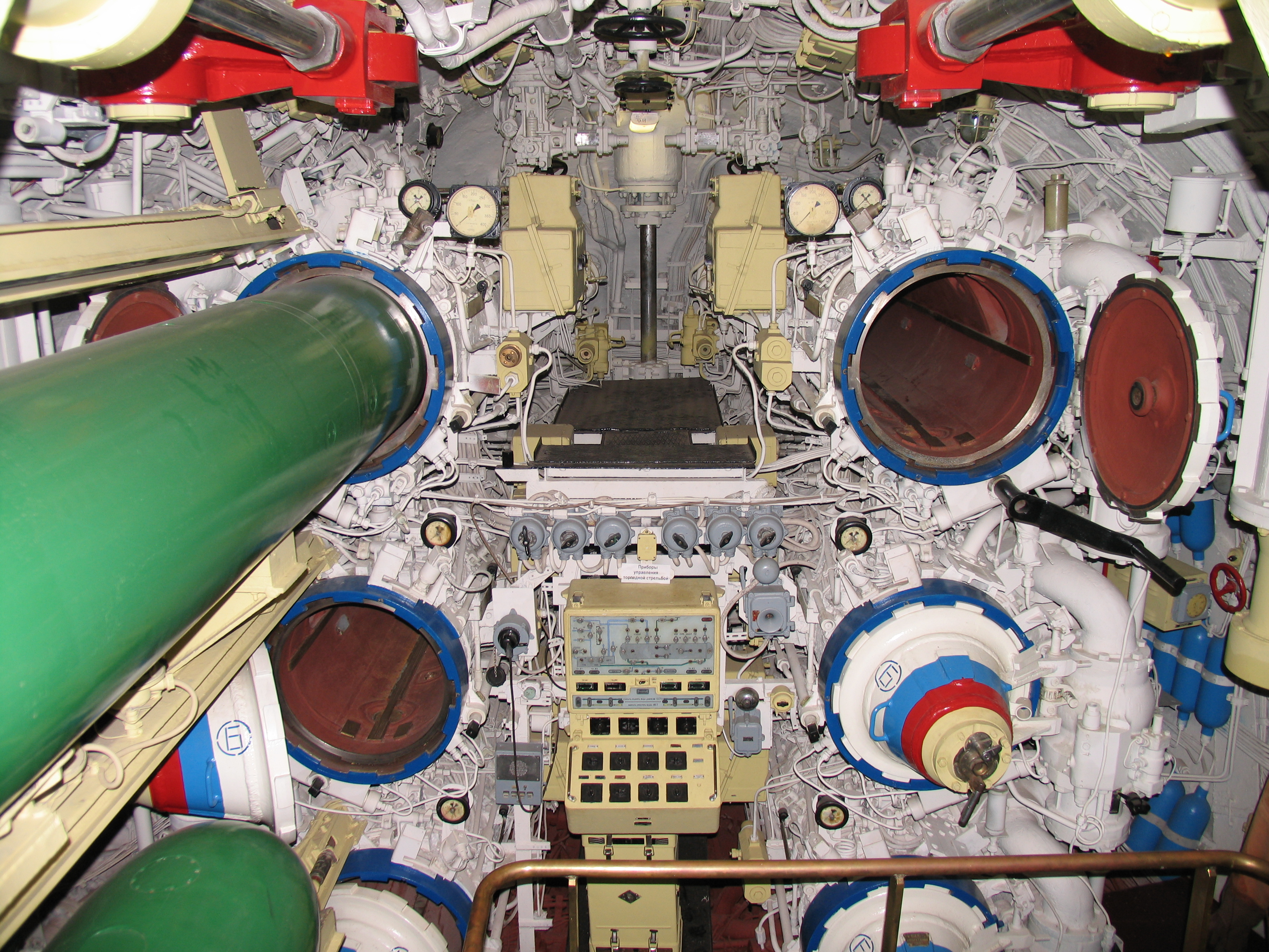 Submarine B-396. The first compartment. Cover torpedo tubes. In the middle of torpedo fire control station.